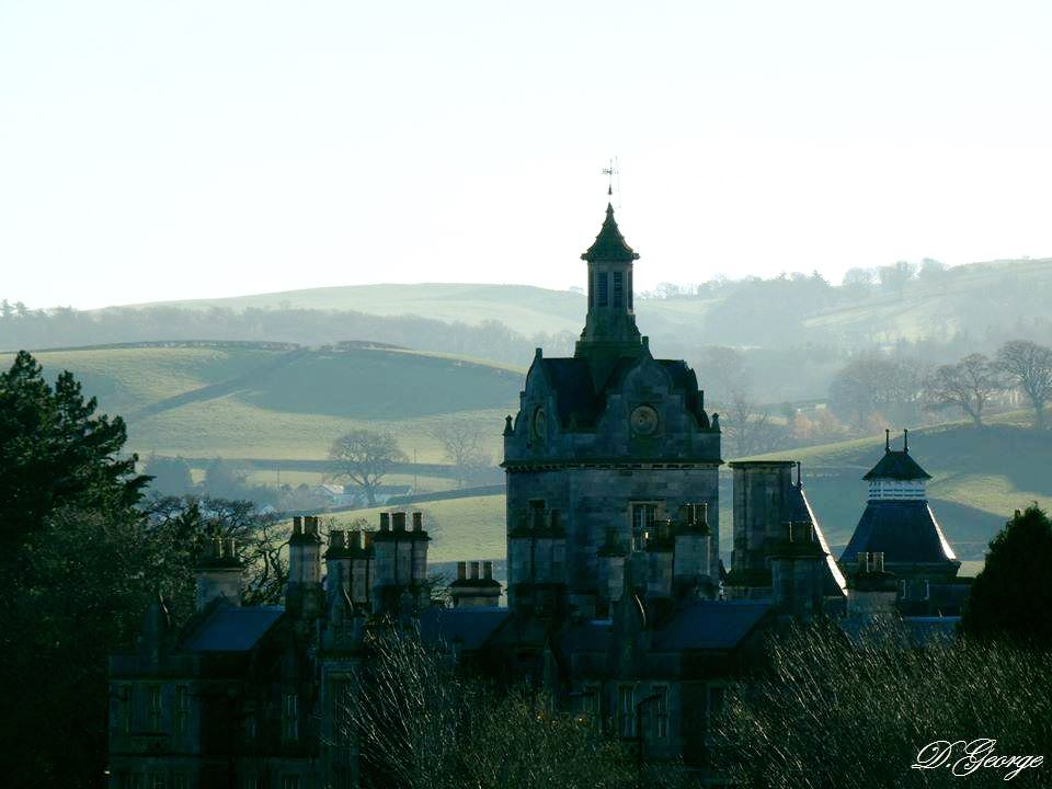 A close up of the old hospital in Denbigh.